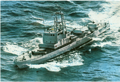 Yet unarmed Sa'ar 3 Class Missile boat on its maiden trip from Cherbourg to Haifa